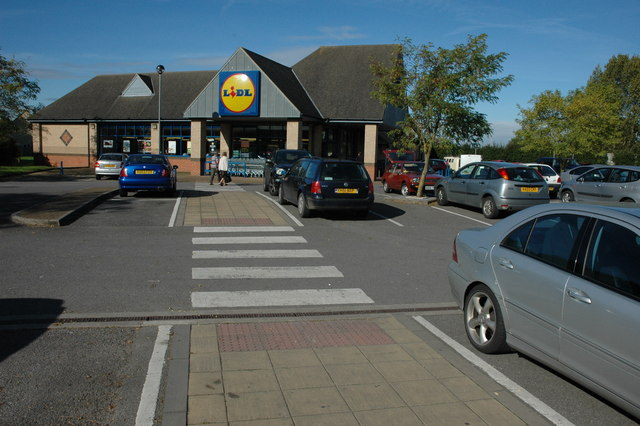 Lidl store in Bishop's Cleeve The arrival of stores such as Lidl, and across the road Tesco, are testament of the growth and urbanisation of a once medium size village.